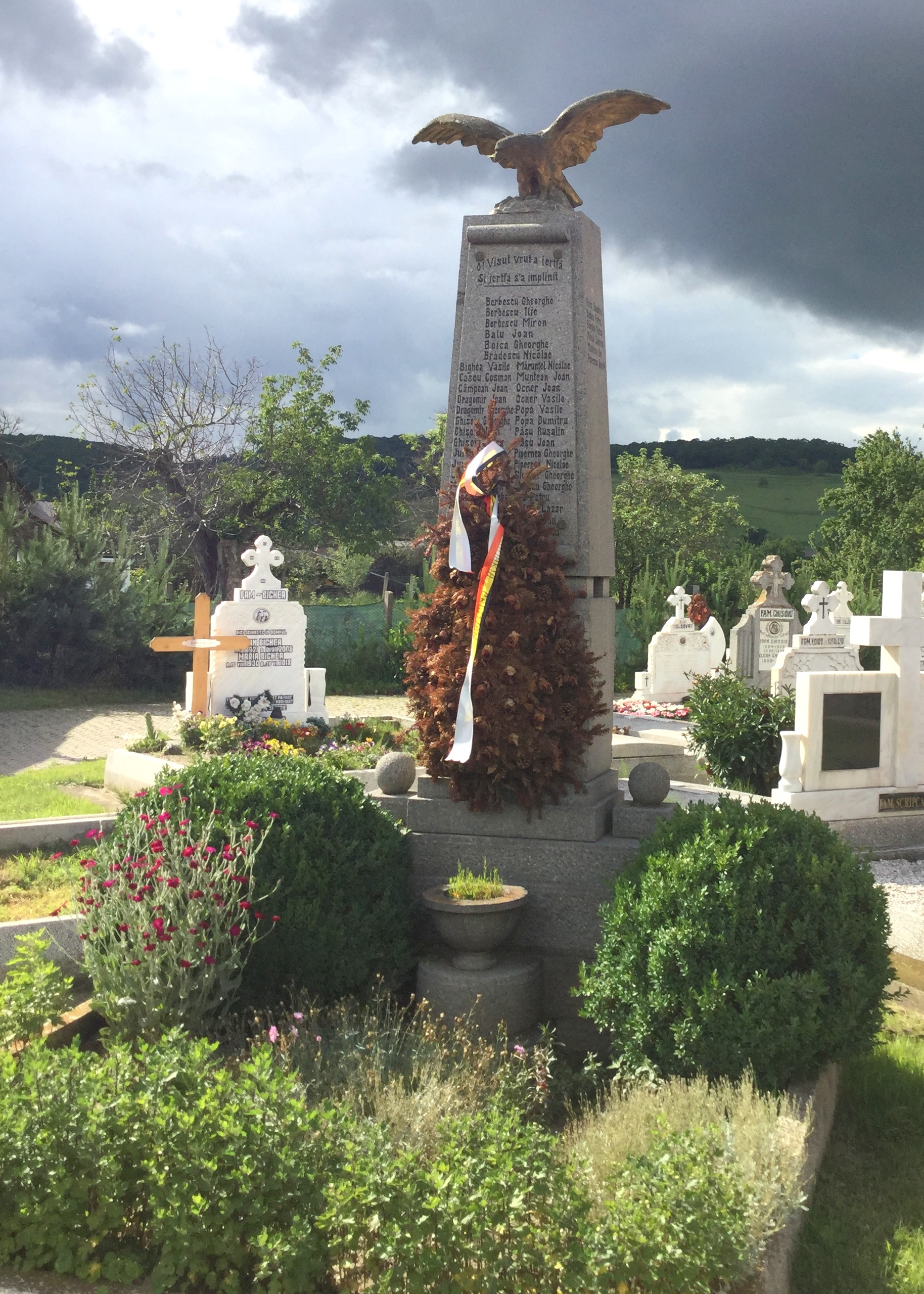 Church of the Annunciation in Cristian, Sibiu County, Romania